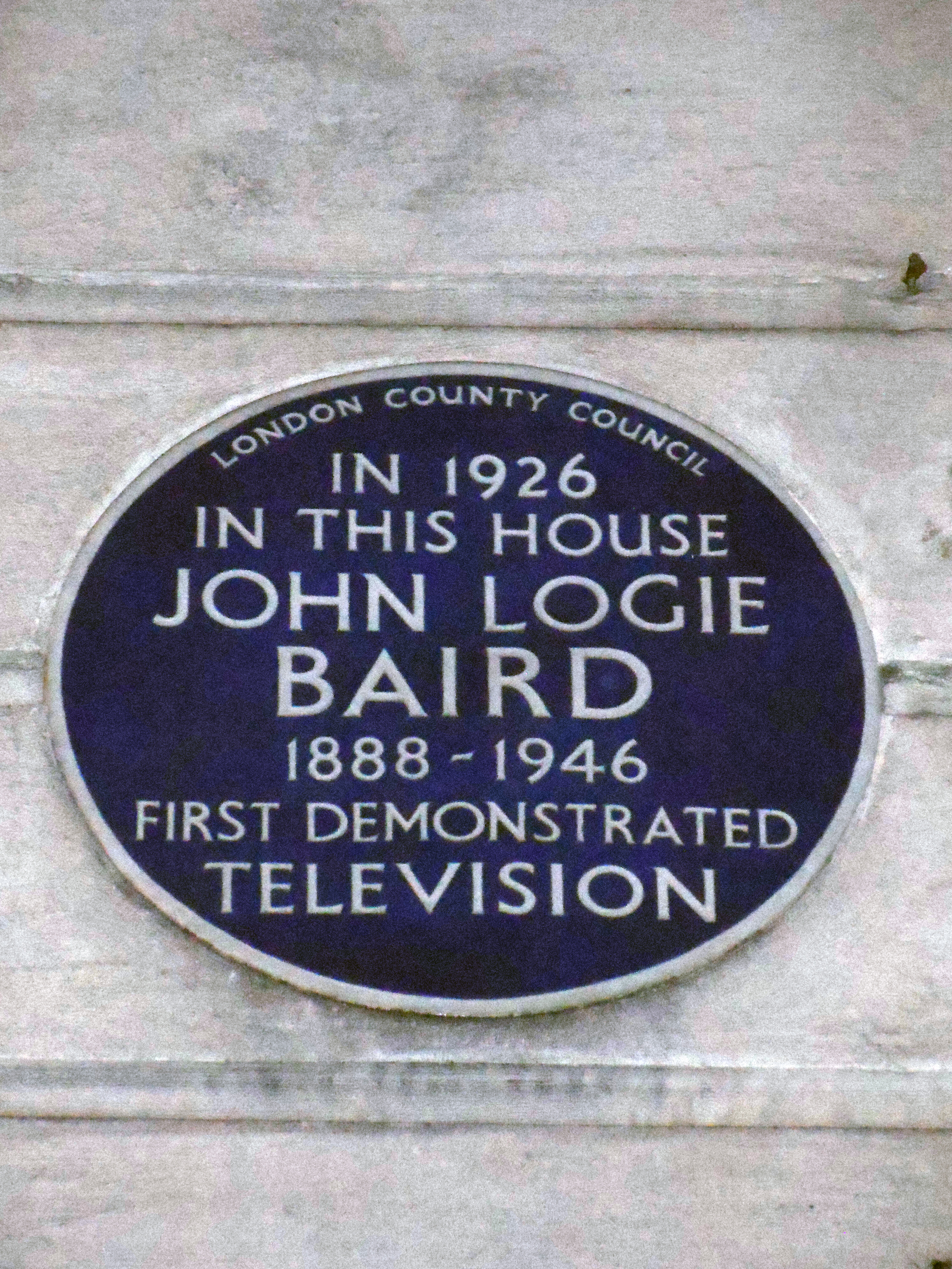 Plaque at 22 Frith Street, Westminster, W1, London, United Kingdom In this house John Logie Baird 1888-1946 first demonstrated television